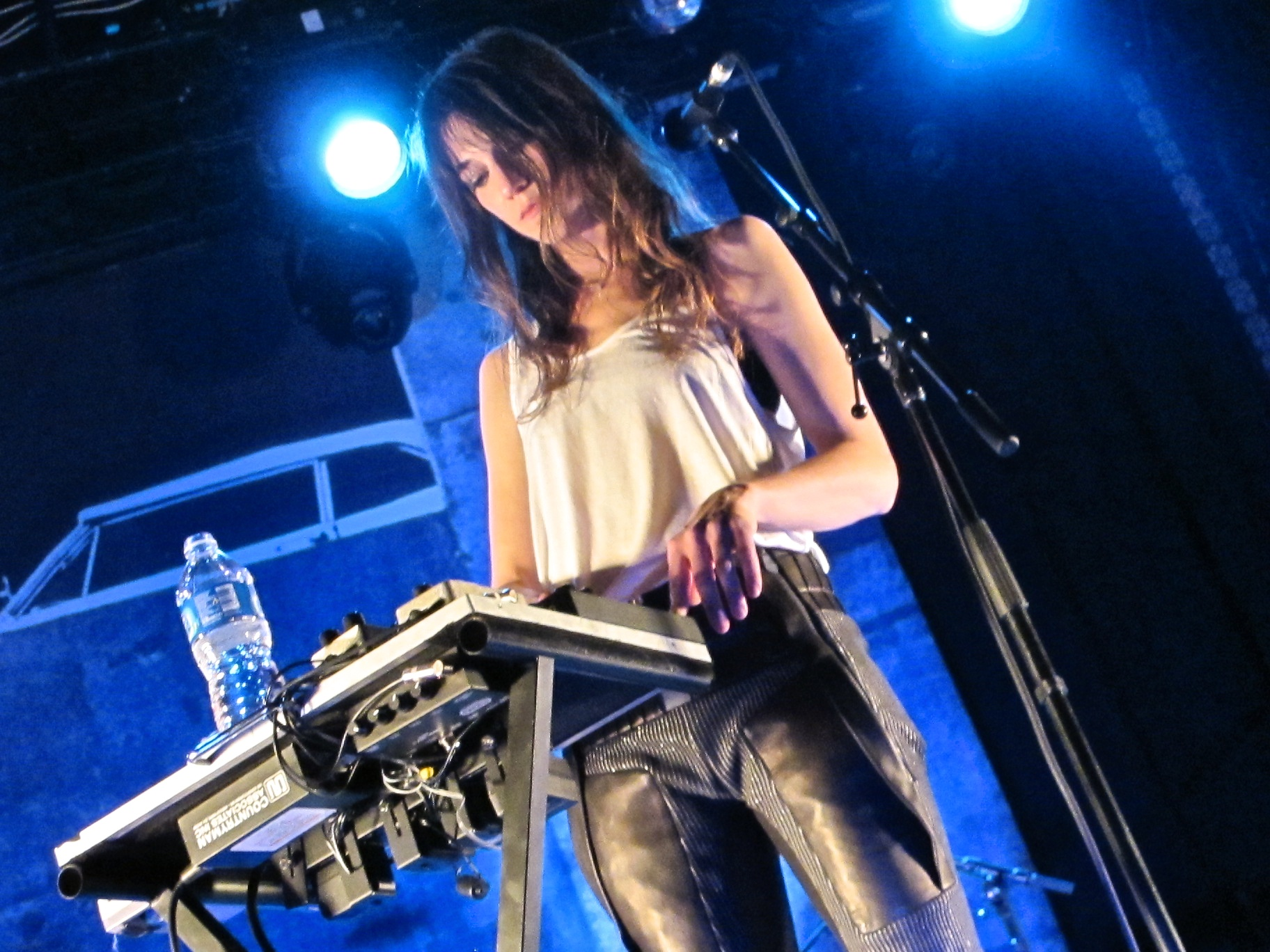 Charlotte Gainsbourg at Webster Hall, NYC